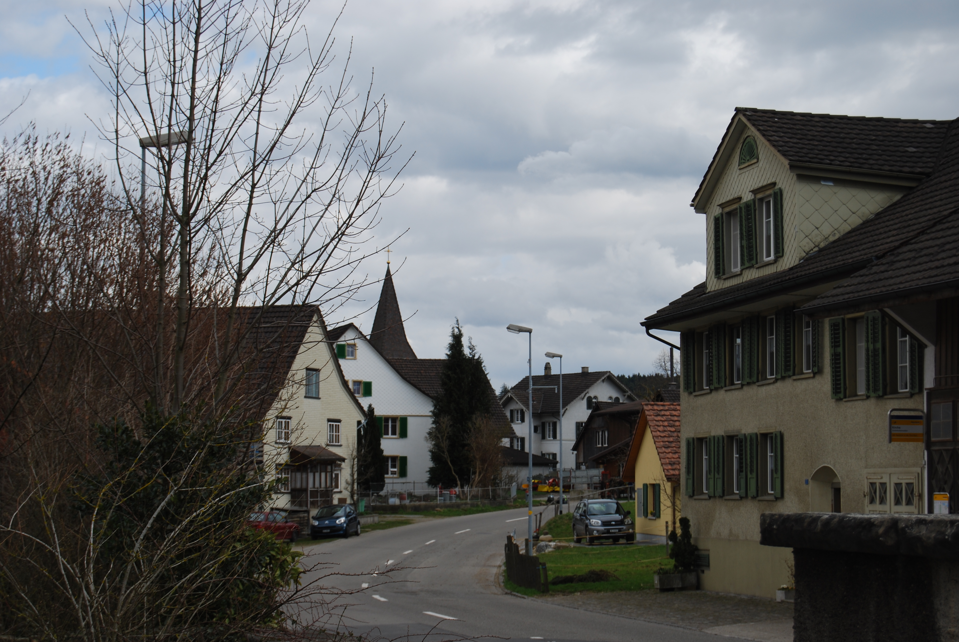 Schönholzerswilen, canton of Thurgovia, Switzerland